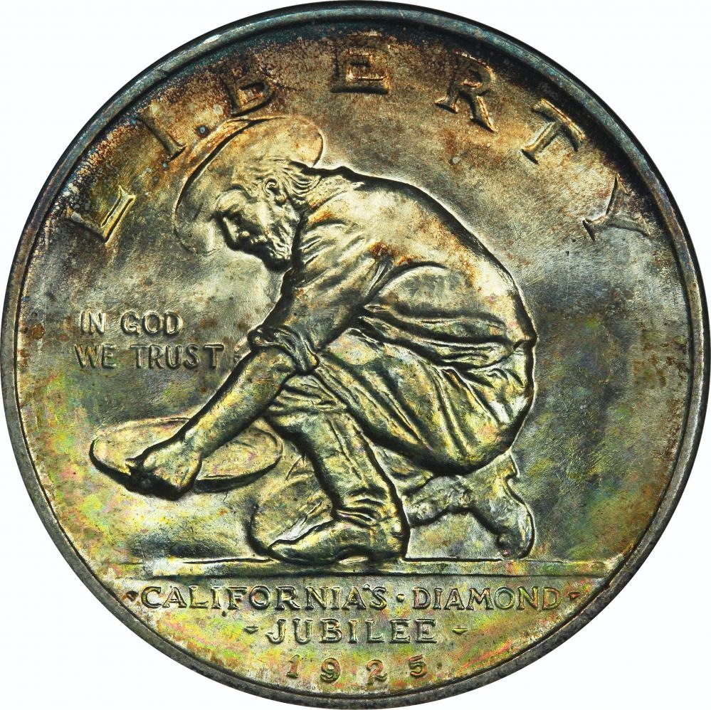 Obverse of 1925 California Diamond Jubilee half dollar